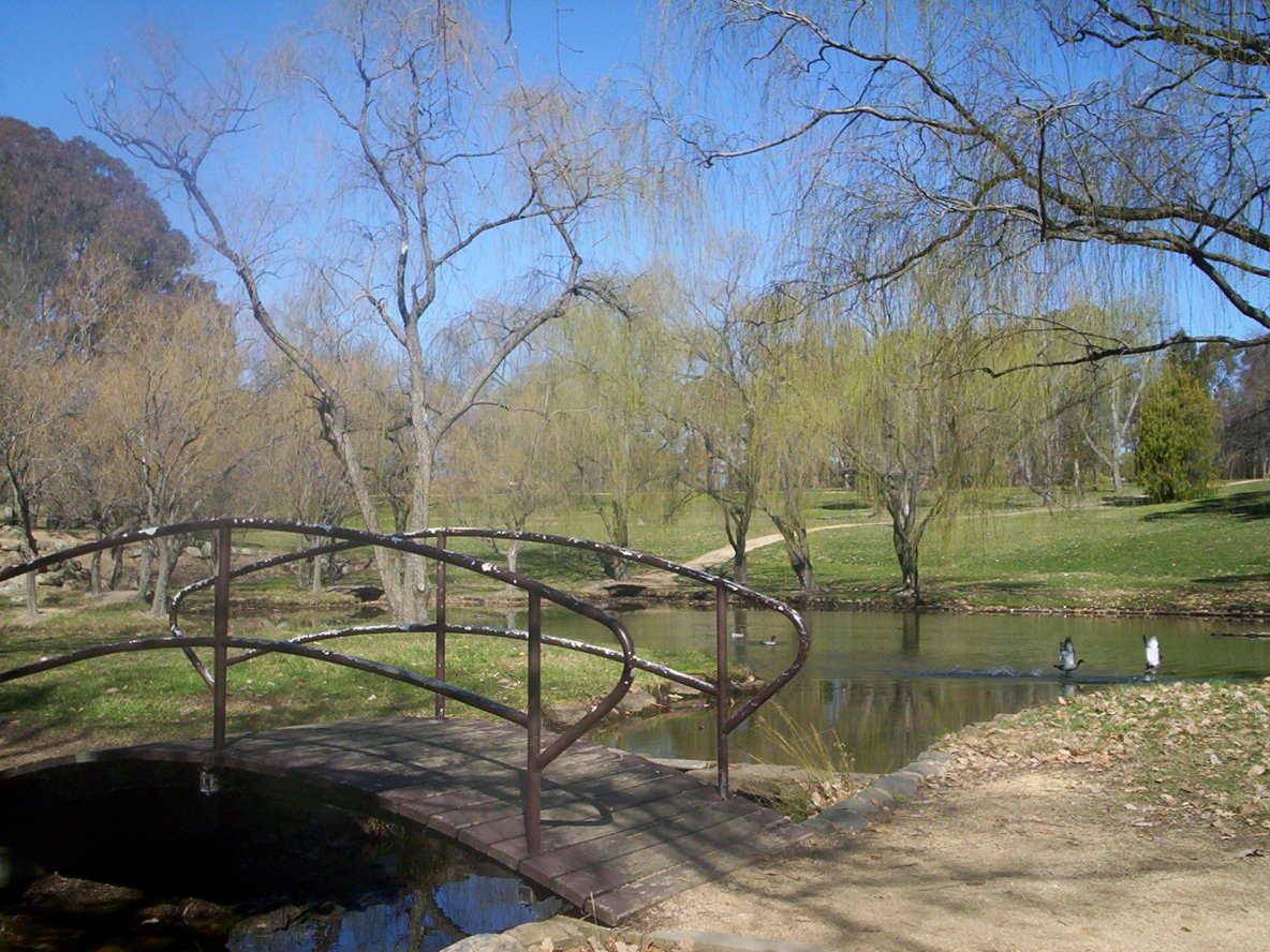 Weston Park, Yarralumla in Canberra, Australia. Note I wrote the wrong title, this is actually Weston Park, not Telopea park. I took the photo Cfitzart 15:35, 26 August 2005 (UTC)